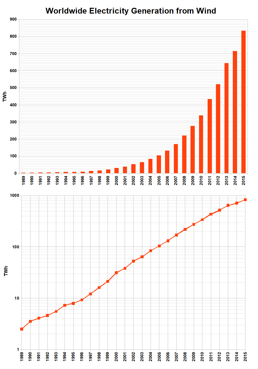 Wind generation worldwide, though 2015. Source: . This chart may be updated annually.